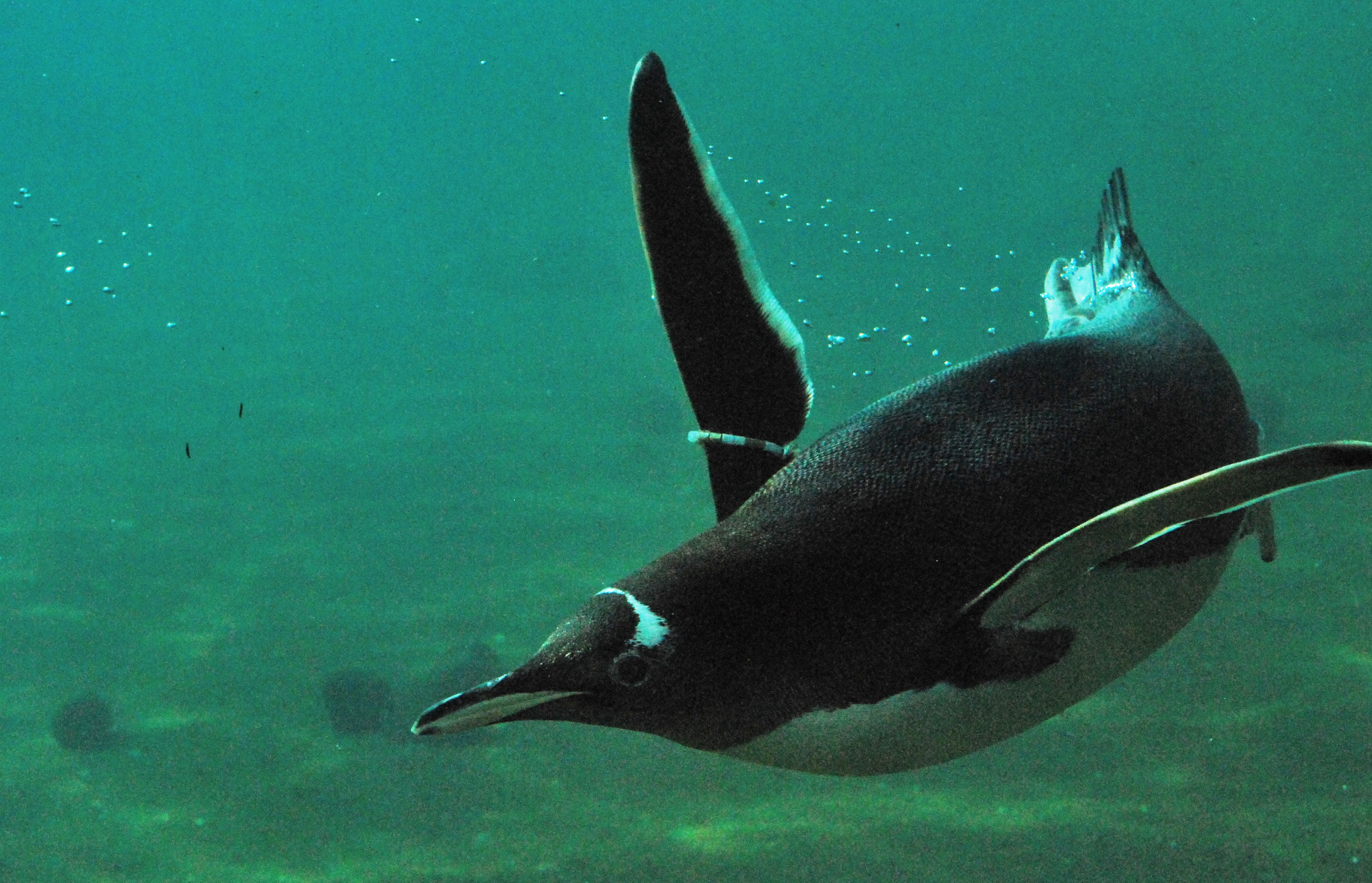 A Gentoo Penguin swimming underwater at Edinburgh Zoo, Scotland.